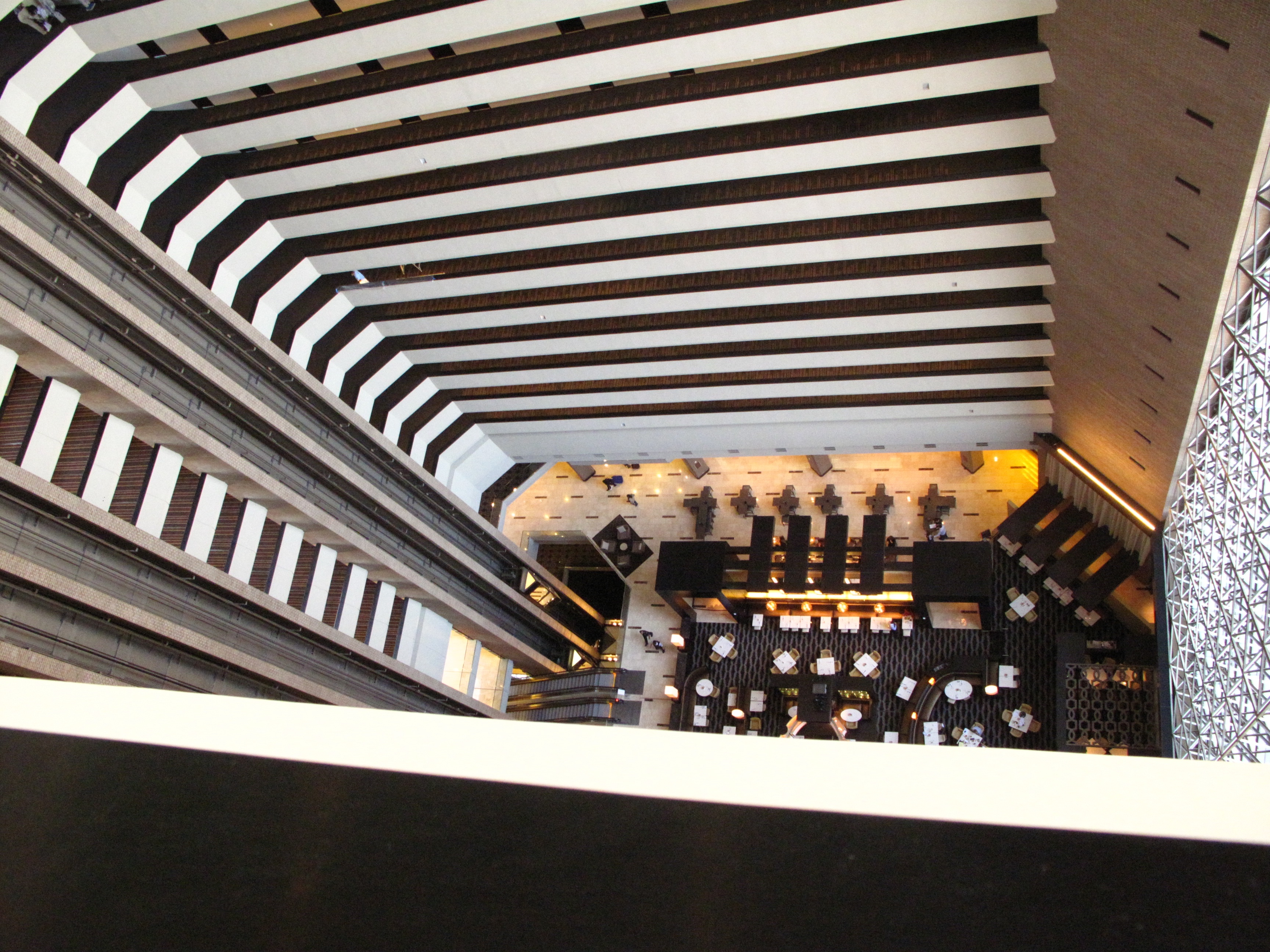 Amazing view of the restaurant from the 24th floor. Hyatt Regency New Orleans